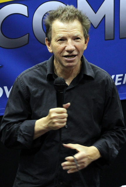 Max Grodenchik at Collectormania Glasgow, 2015